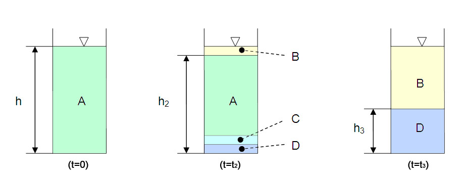 Sedimentation steps of a cylinder test.